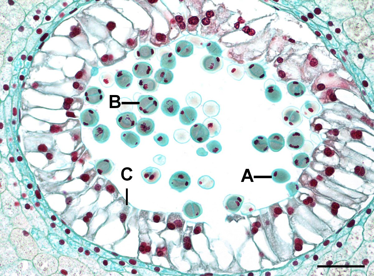 Photomicrograph of the sporogenous tissue of a Lilium anther. A=Young microsporocyte, B=Tetrad of microspores, C=Tapetum. Scale=0.1mm.